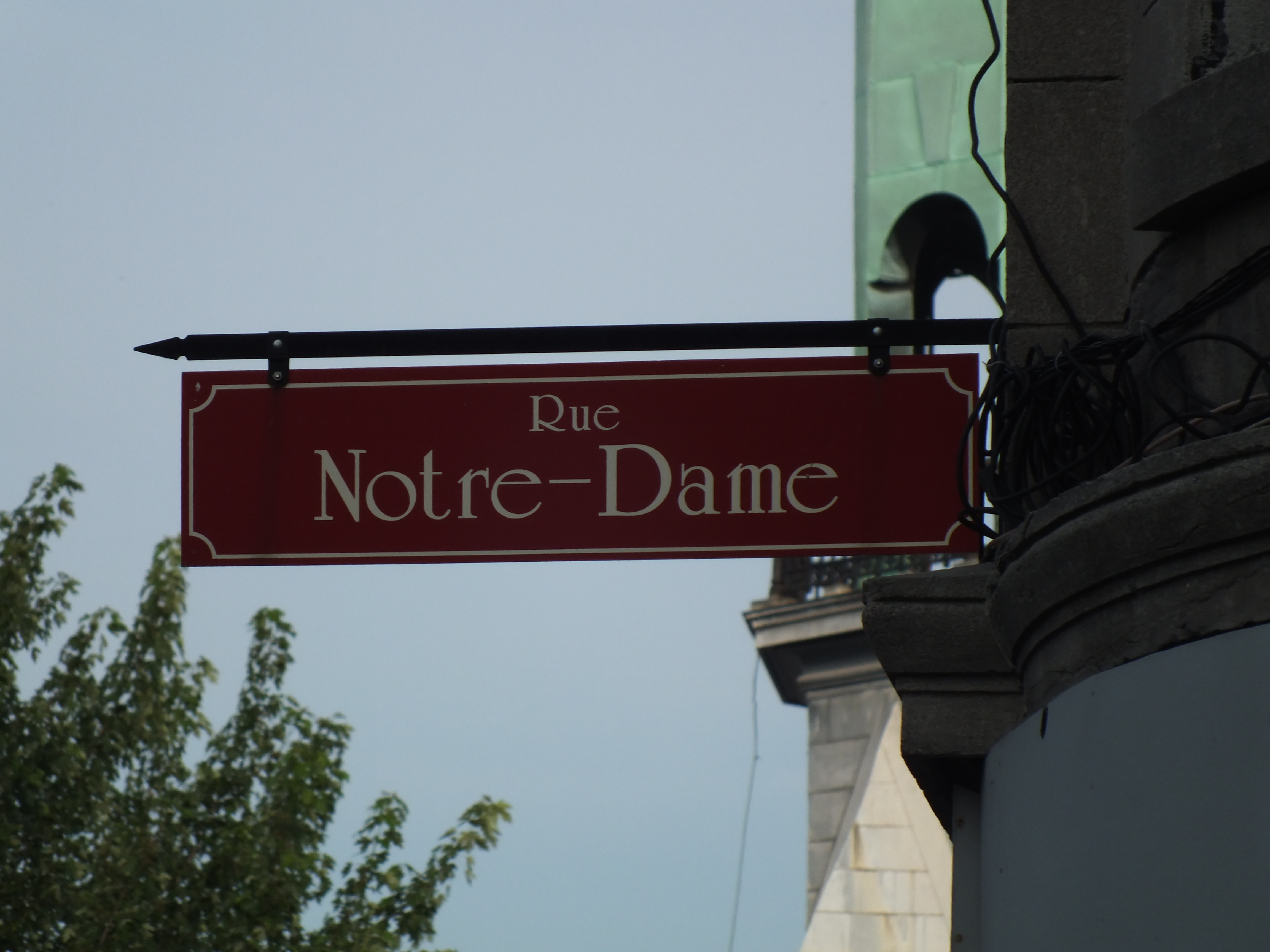 Rue Notre-Dame